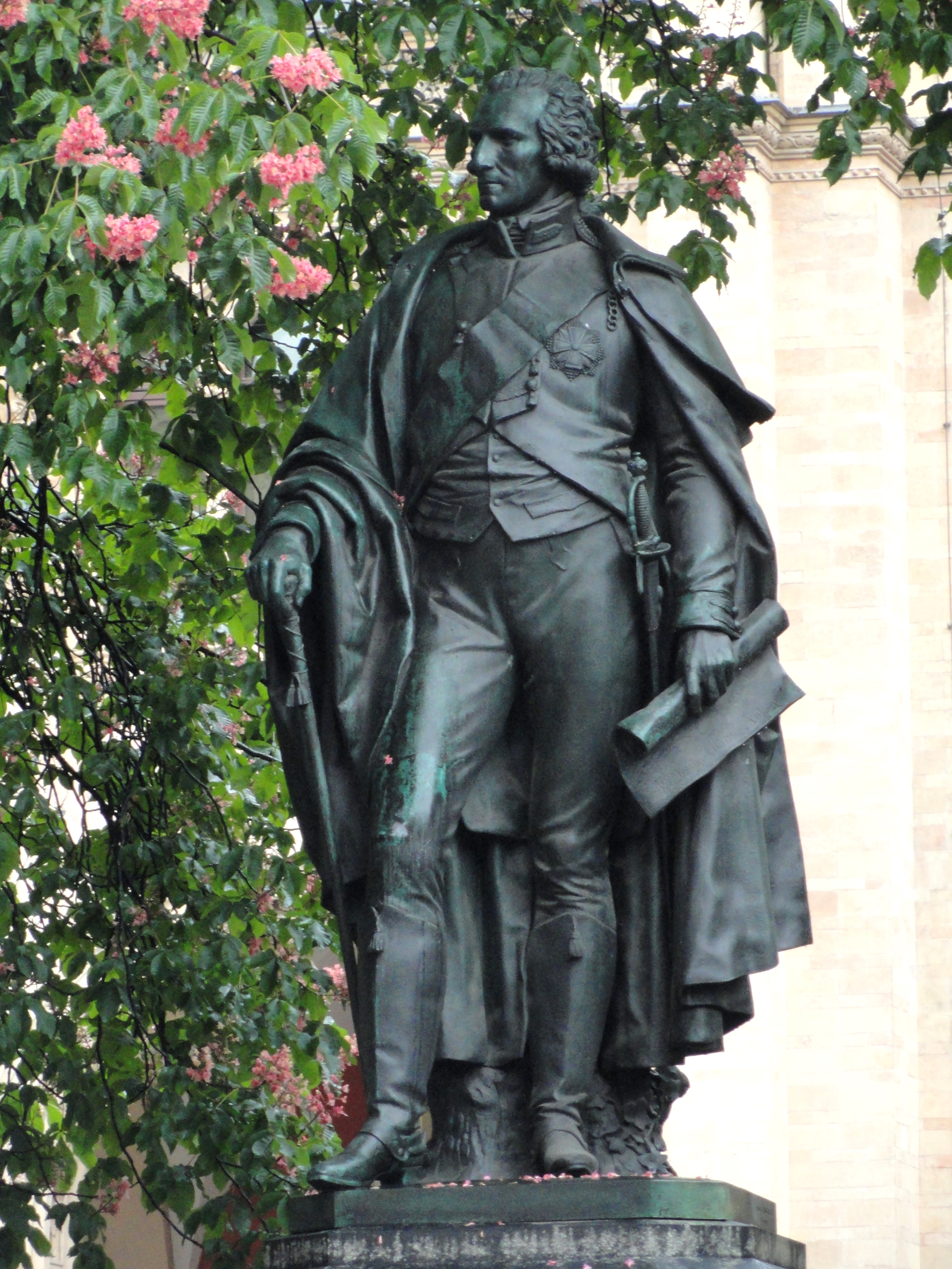 Statue of Benjamin Thompson (Count Rumford) by Caspar von Zumbusch, Maximilianstraße, Munich, Germany. Copyright has expired on the statue.